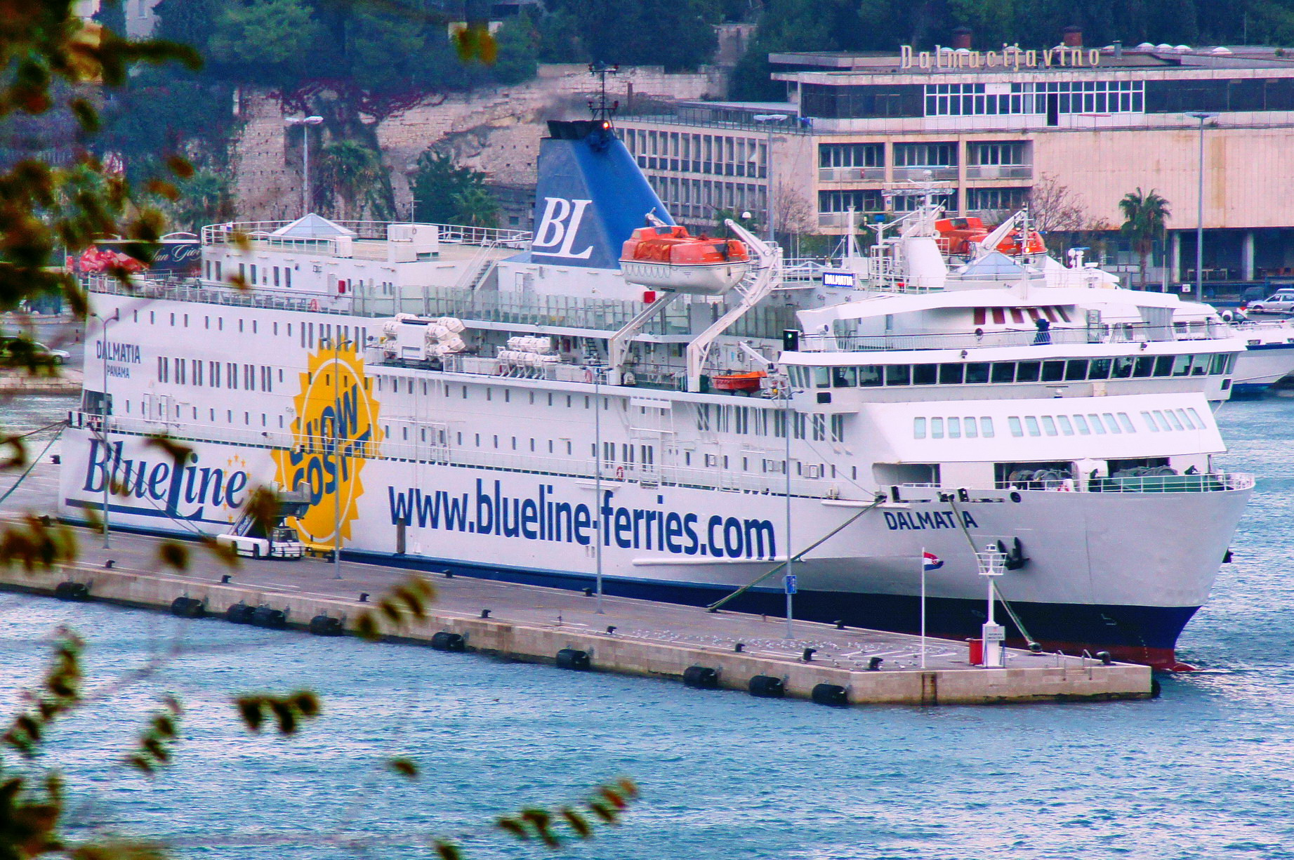 Dalmatia (ship, 1977) IMO 7516761; in Split, 2011-11-05